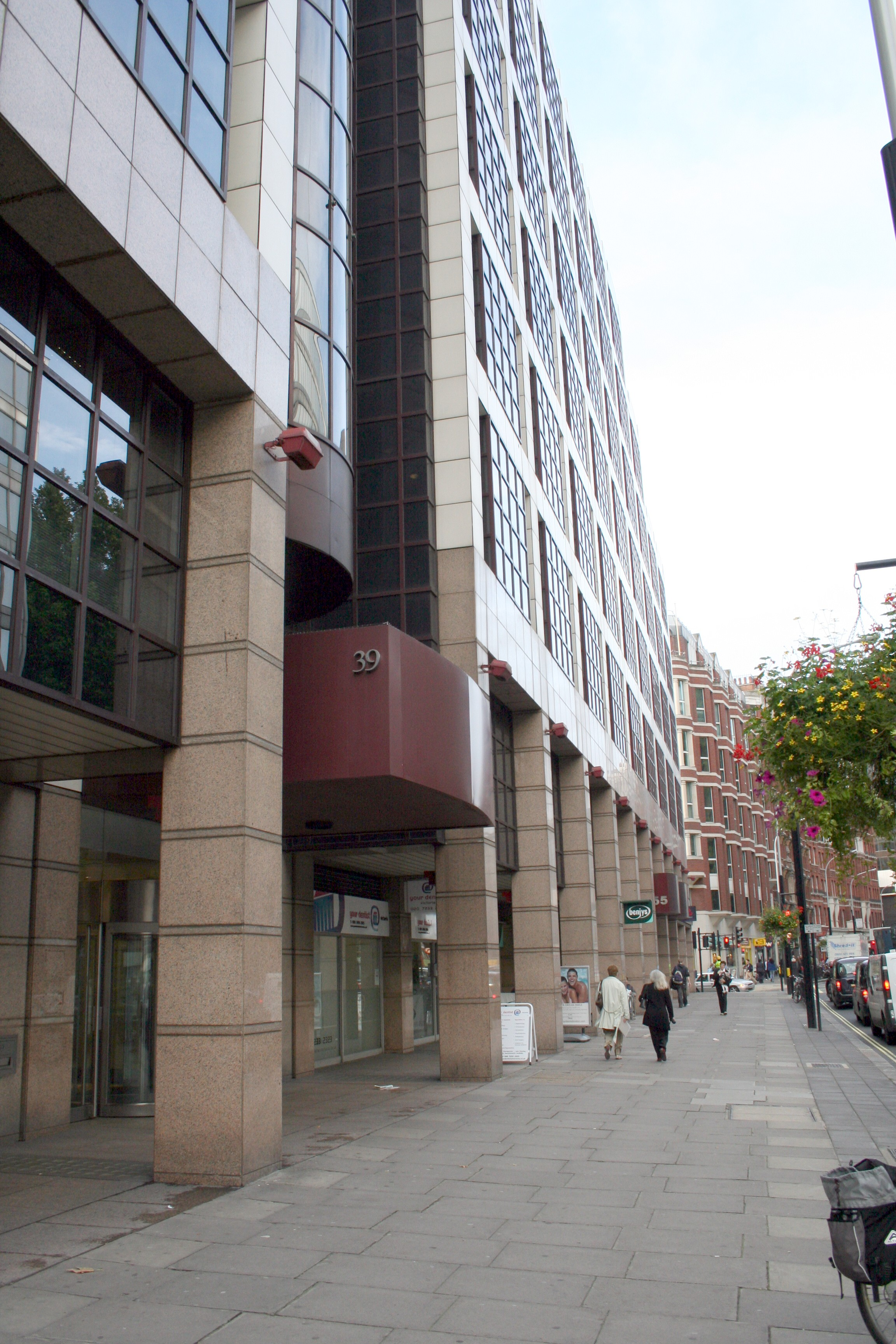 The Labour Party Headquarters in Victoria Street, London